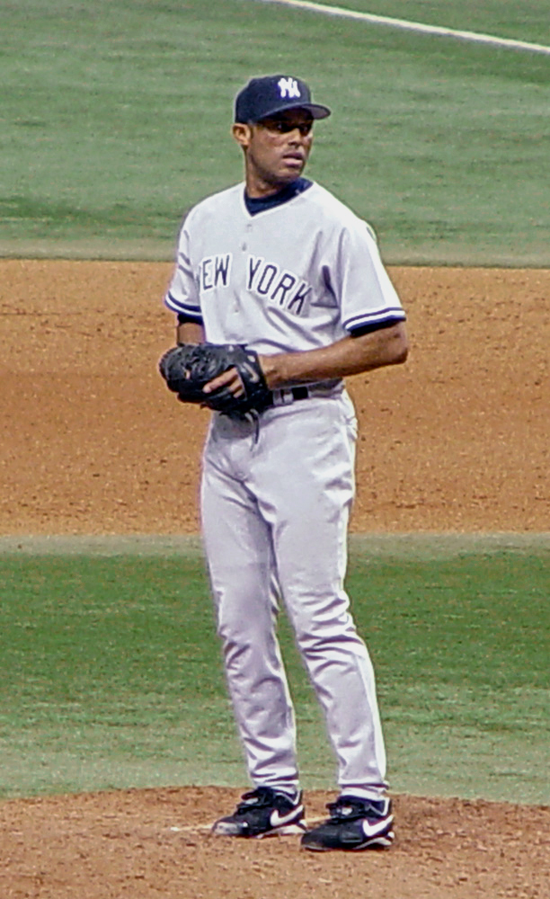 Photo by Googie Man 14:33, 10 May 2006 . . Googie man . . 612×1000 (228,722 bytes)